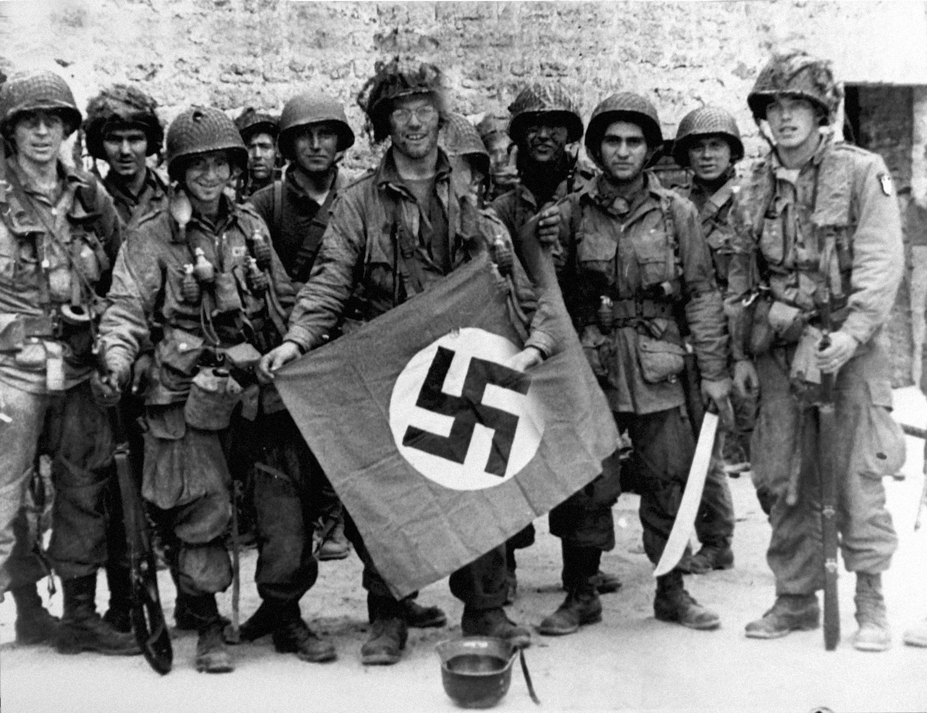 American paratrooper James Flanagan (2nd Platoon, C Co, 1-502nd PIR), among the first to make successful landings on the continent, holds a Nazi flag captured in a village assault. Marmion Farm at Ravenoville, Utah Beach, France. 6 June 1944